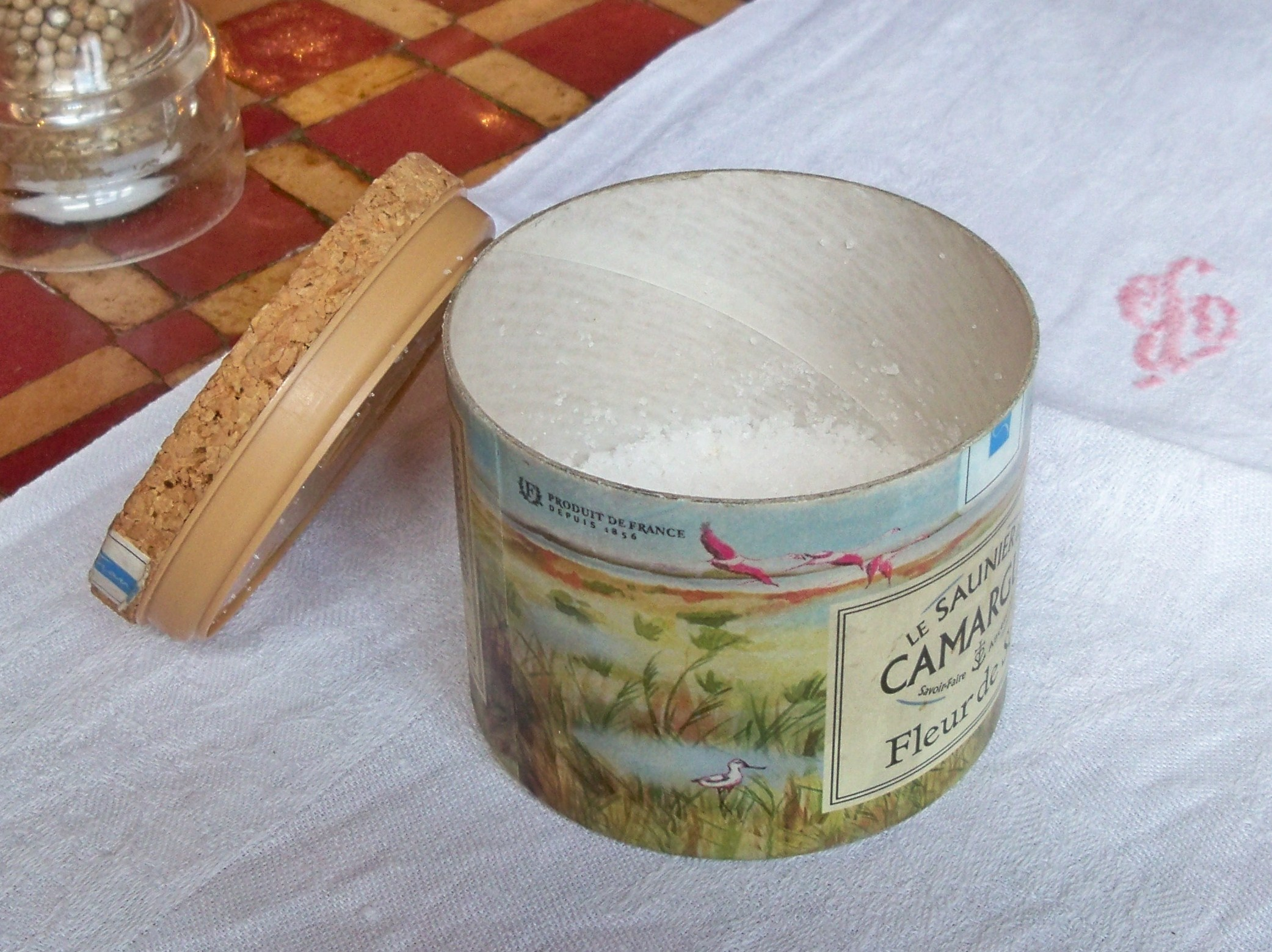 camargue salt (France)